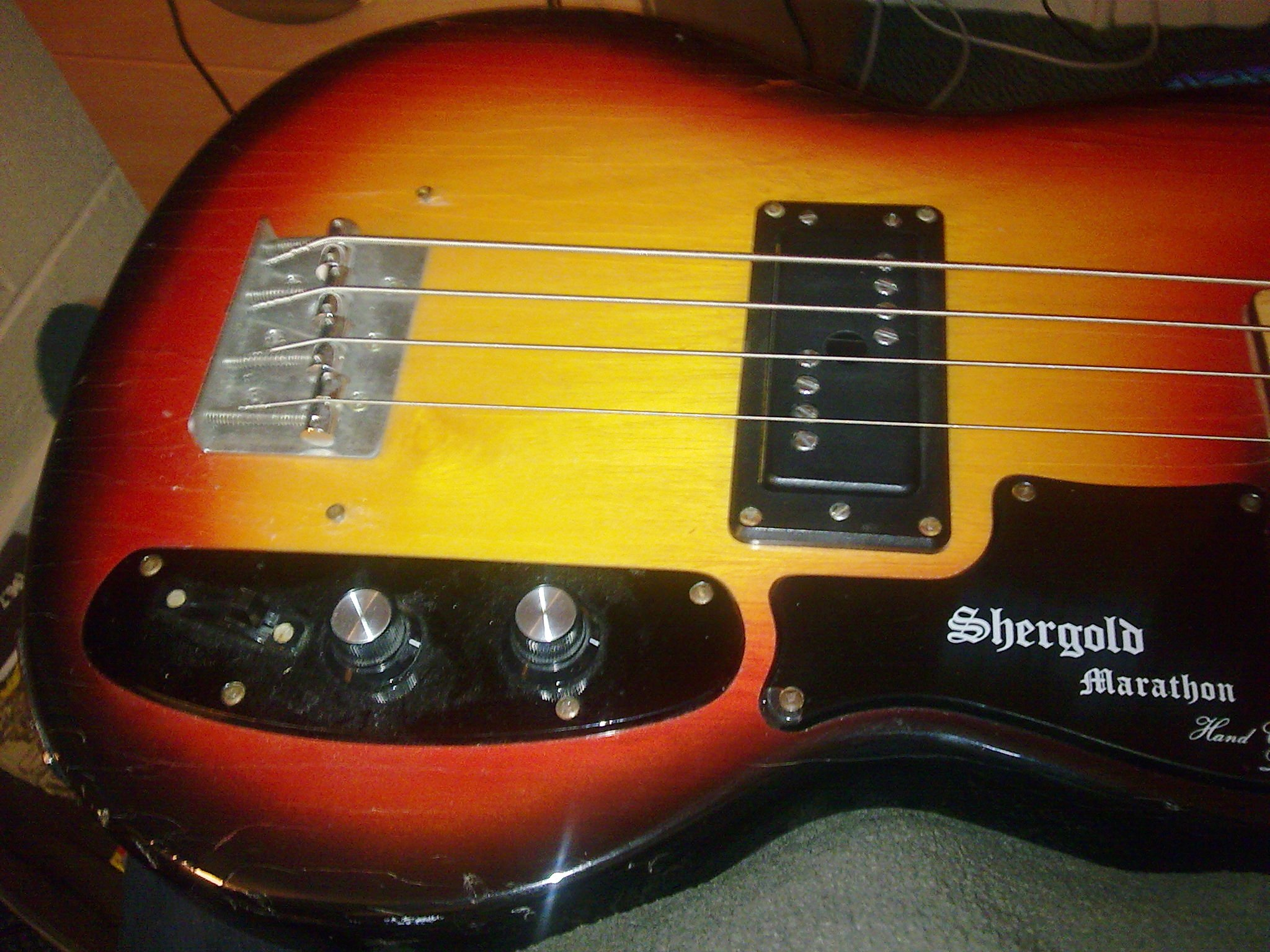 A picture of a Shergold Matahon Mk.1 4 string bass guitar.